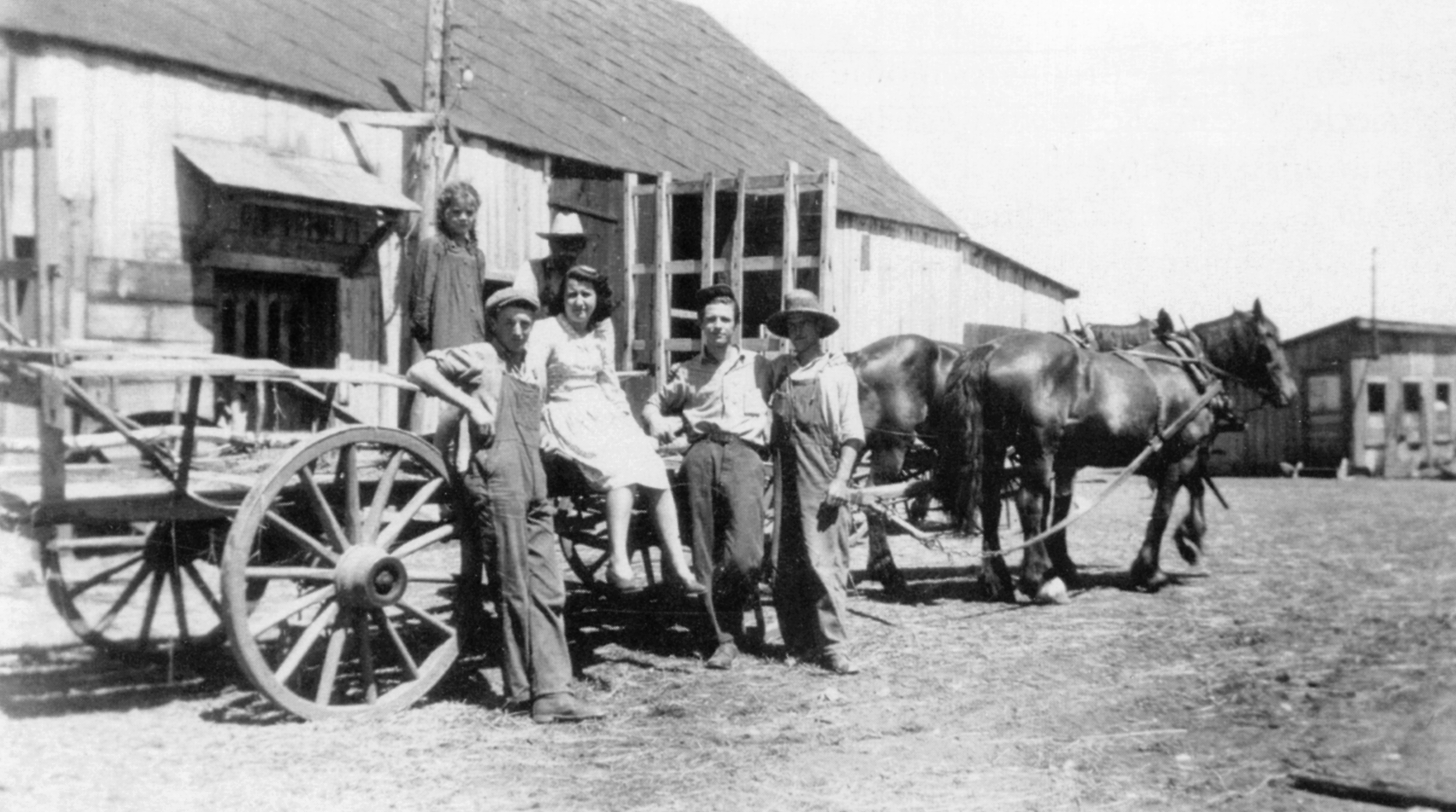 A familiy at the begining of Saint-Charles-Borromée